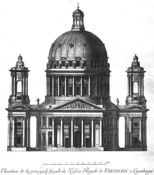 Elevation of Nicolas-Henri Jardin's (1720-1799) proposal for Frederick's Church in Copenhagen.